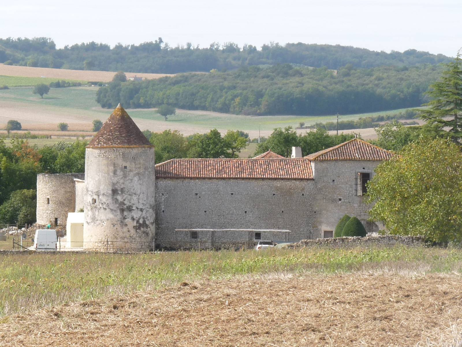 Castle of Puygâty, Chadurie, SW France